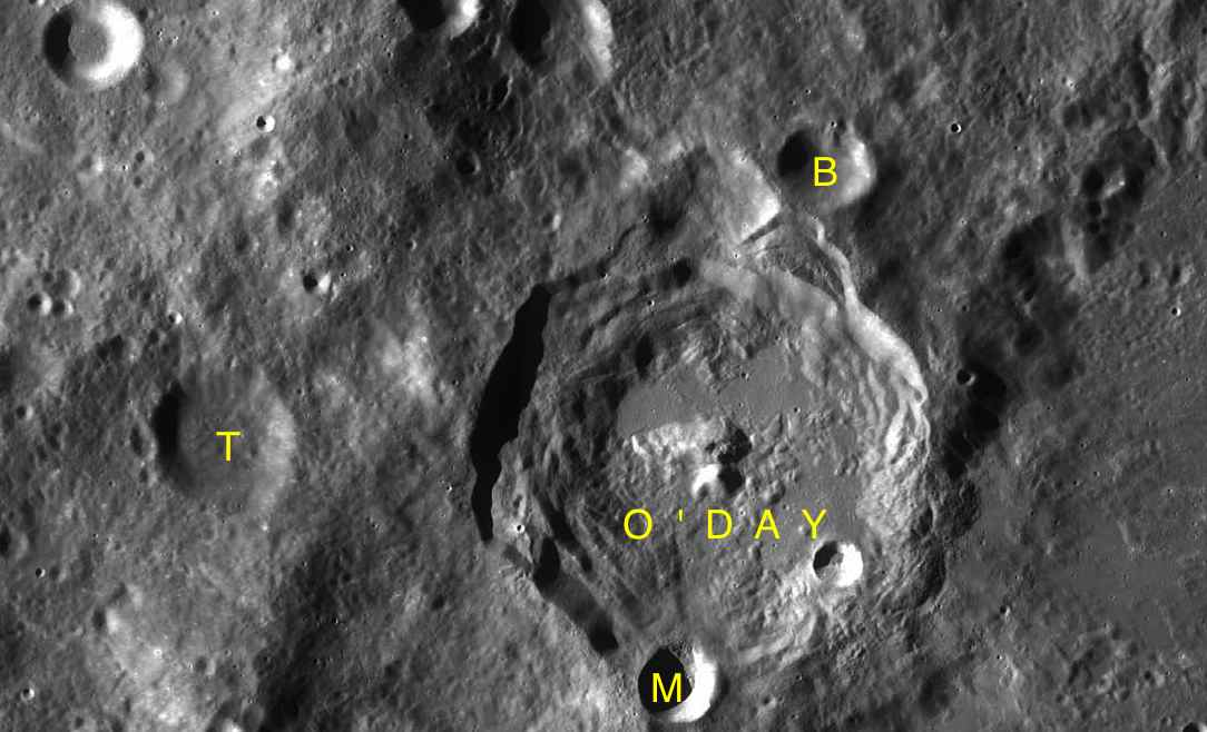 Part of the chart LAC-103 used for the presentation